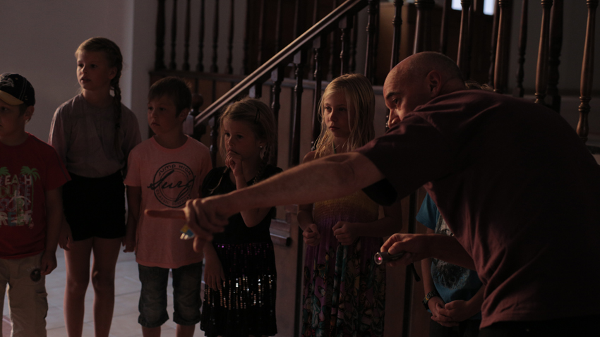 Communication with children within the framework of the 30th Parallel project